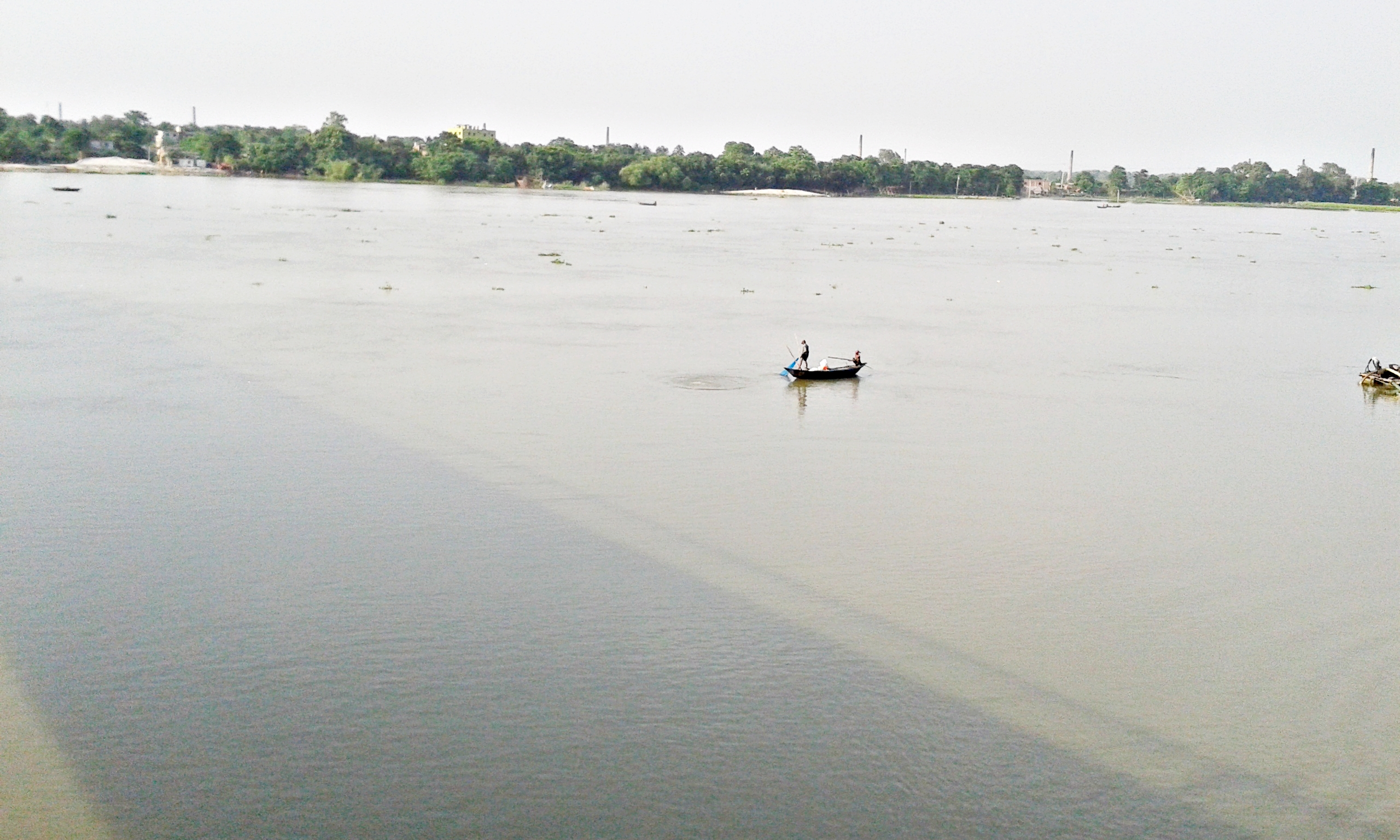 Mohanonda river, Chapainawabganj, Rajshahi